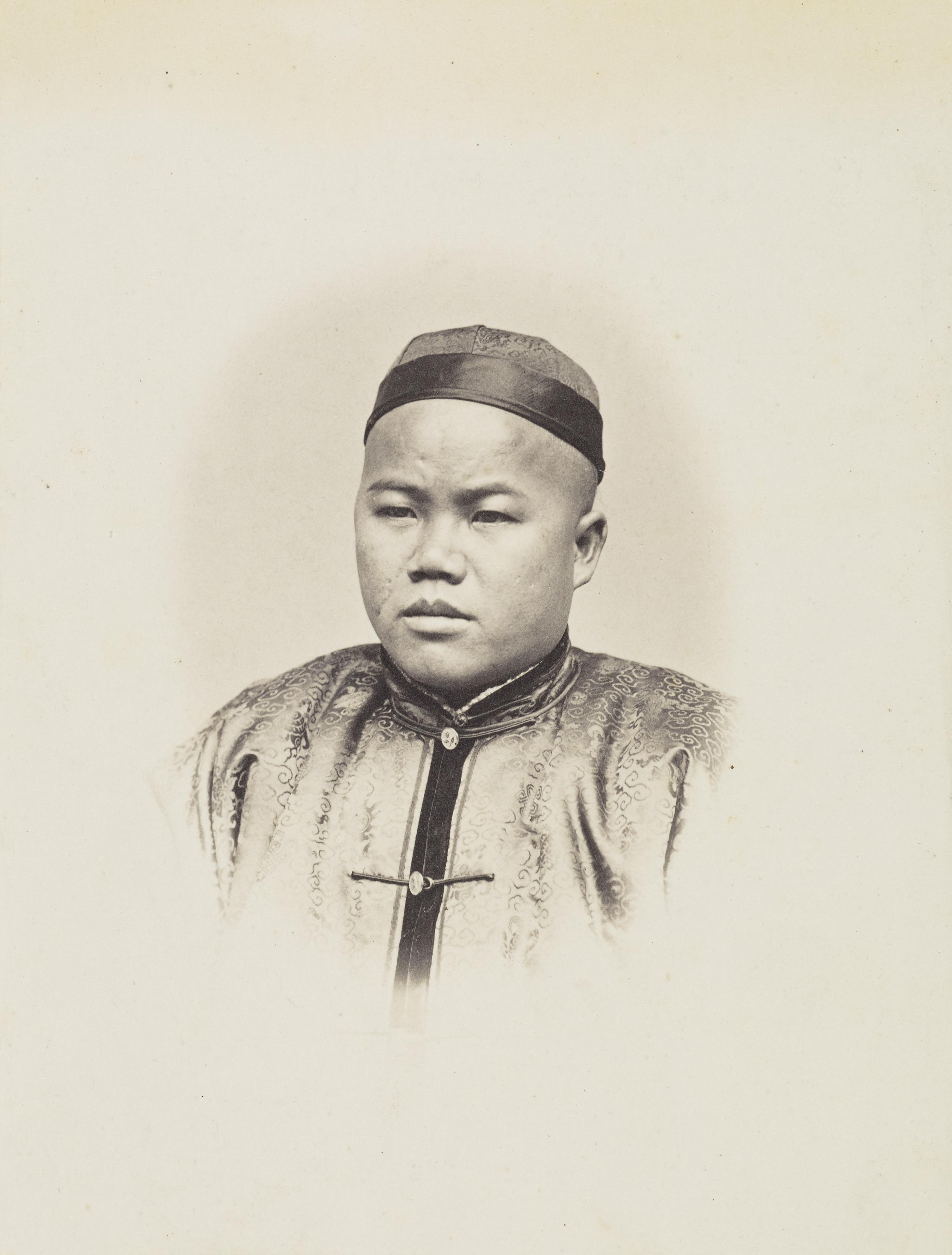 Only known Self-Portrait and autograph of Lai Afong